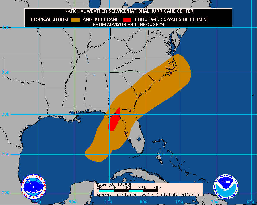 Wind history of Hurricane Hermine during its lifespan as a tropical cyclone from National Hurricane Center Advisories 1 (August 28) through 24 (September 3), although there was no history of tropical storm force winds until advisory 13 on August 31. Hermine transitioned to a post-tropical cyclone as of Advisory 25 on September 3. At that time, the storm still had tropical storm force winds and the NHC continued issuing advisories until Advisory 38 on September 6. According to the NHC, the wind history graphic "shows how the size of the storm has changed, and the areas potentially affected so far by sustained winds of tropical storm force (in orange) and hurricane force (in red). The display is based on the wind radii contained in the set of Forecast/Advisories indicated at the top of the figure. Users are reminded that the Forecast/Advisory wind radii represent the maximum possible extent of a given wind speed within particular quadrants around the tropical cyclone. As a result, not all locations falling within the orange or red swaths will have experienced sustained tropical storm or hurricane force winds, respectively."